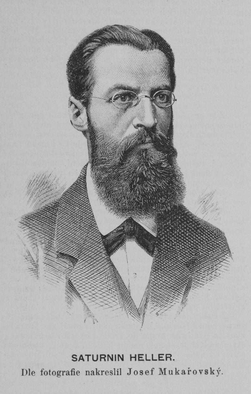 Portrait of Saturnin Heller (1840 - 1884), Czech architect